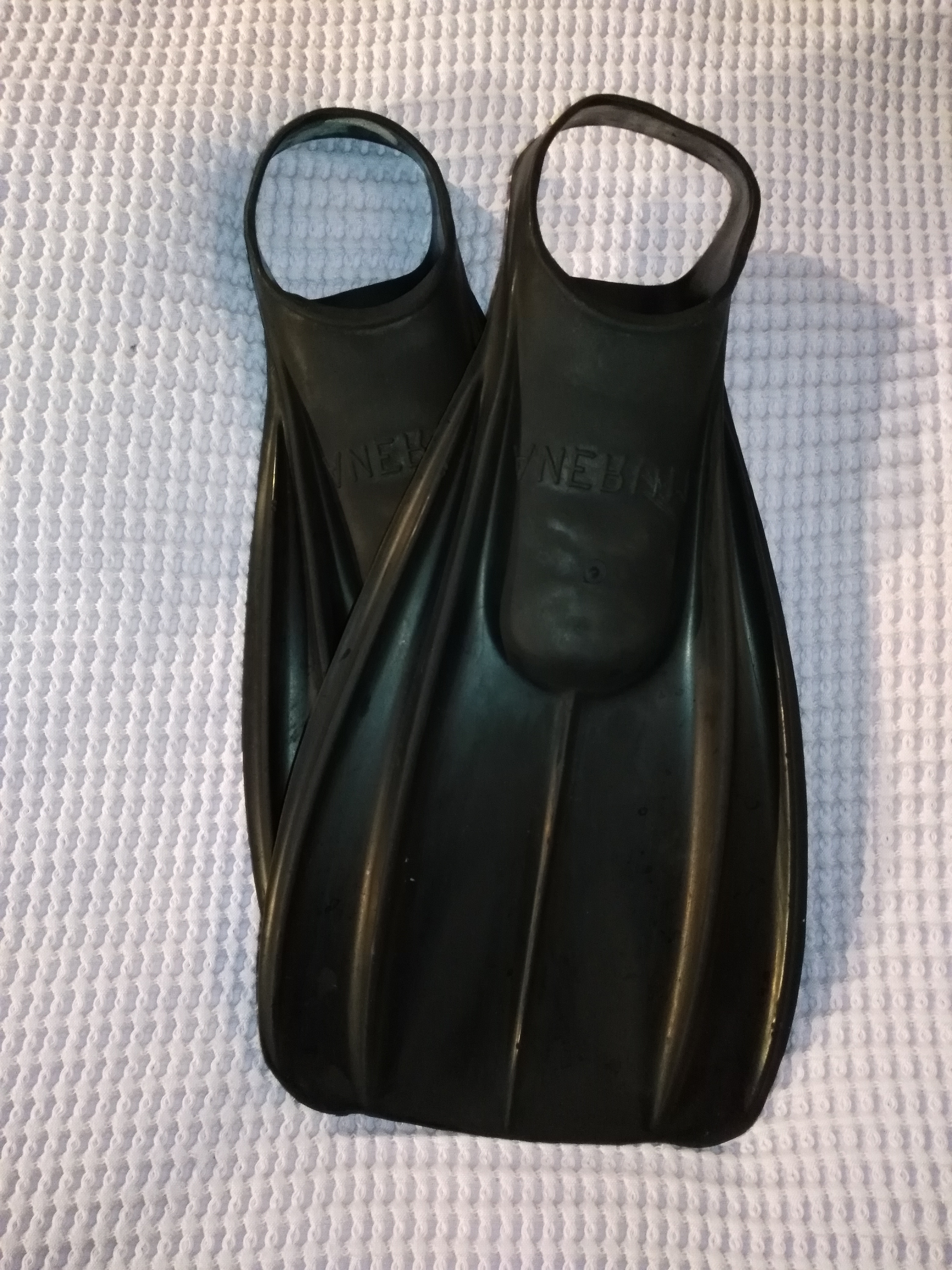 Special fins made for underwater rugby by Murena, a Hungarian fin producer